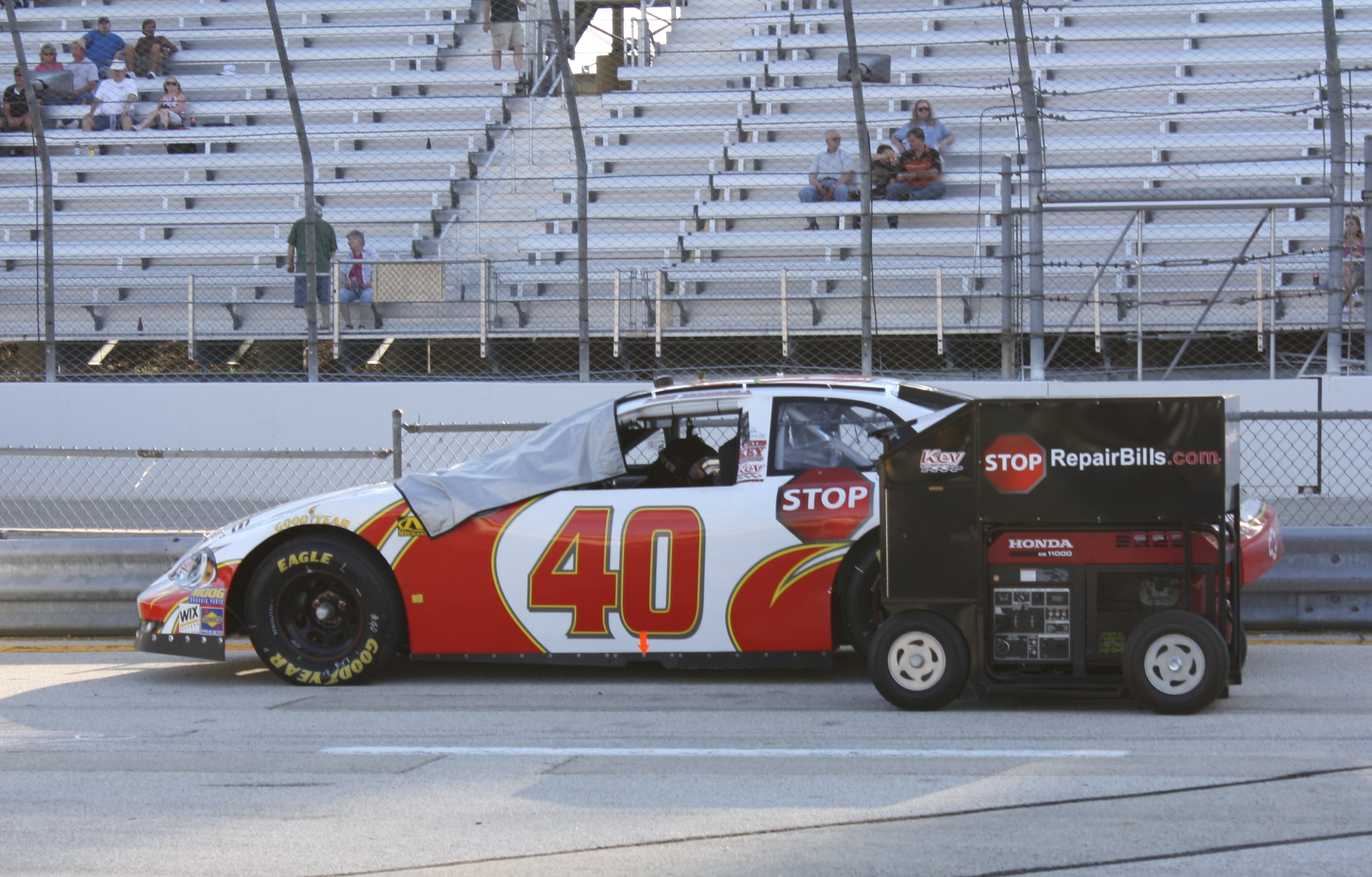 NASCAR driver Aric Almirolas Chevrolet at the 2009 Northern 250 Nationwide Series race at the Milwaukee Mile.